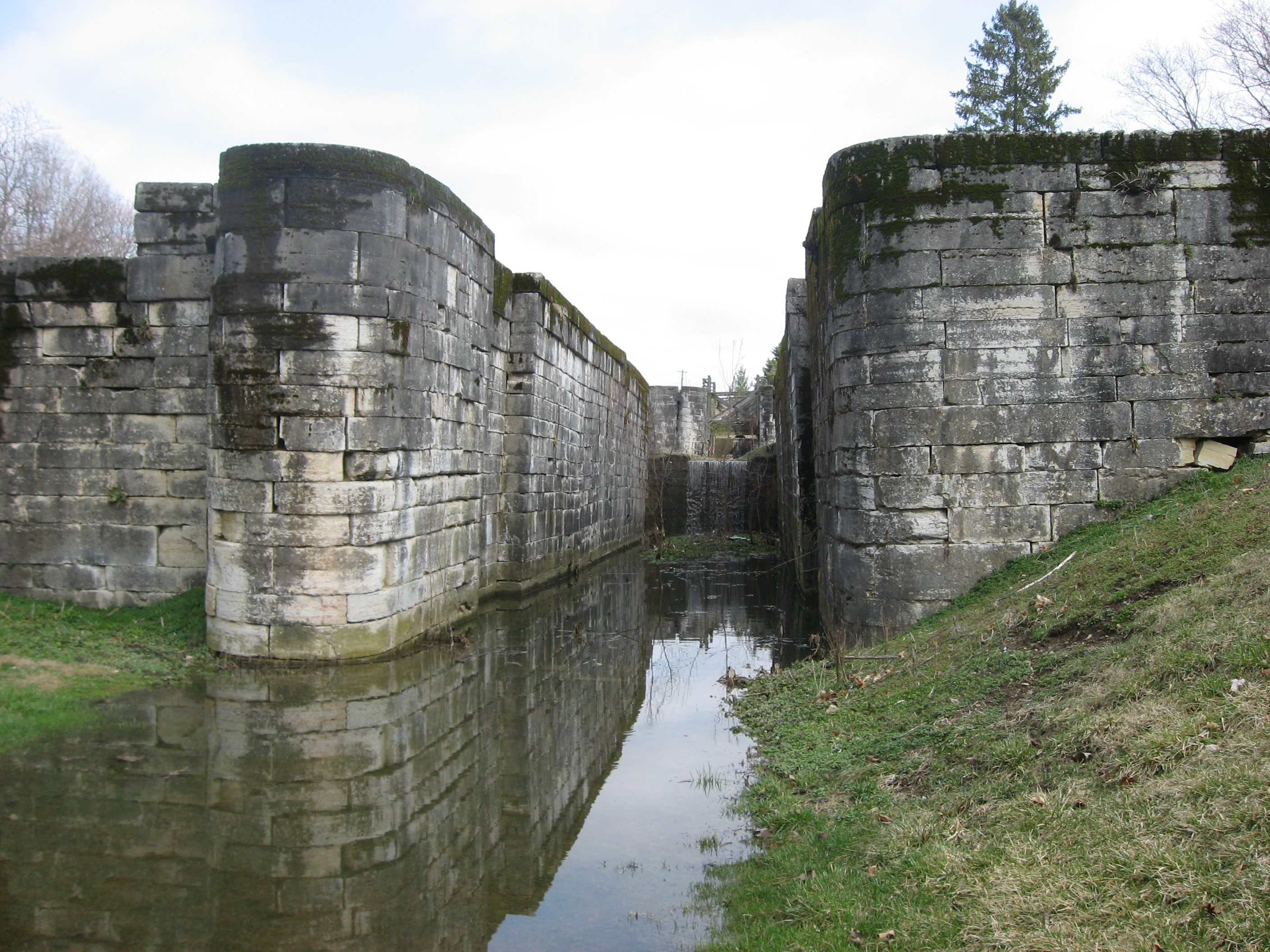 Looking up toward the bottom of the second of the Lockington Locks, located in the southwestern part of the village of Lockington, Ohio, United States. Built in 1833 as a part of the Miami and Erie Canal, the locks are listed on the National Register of Historic Places.